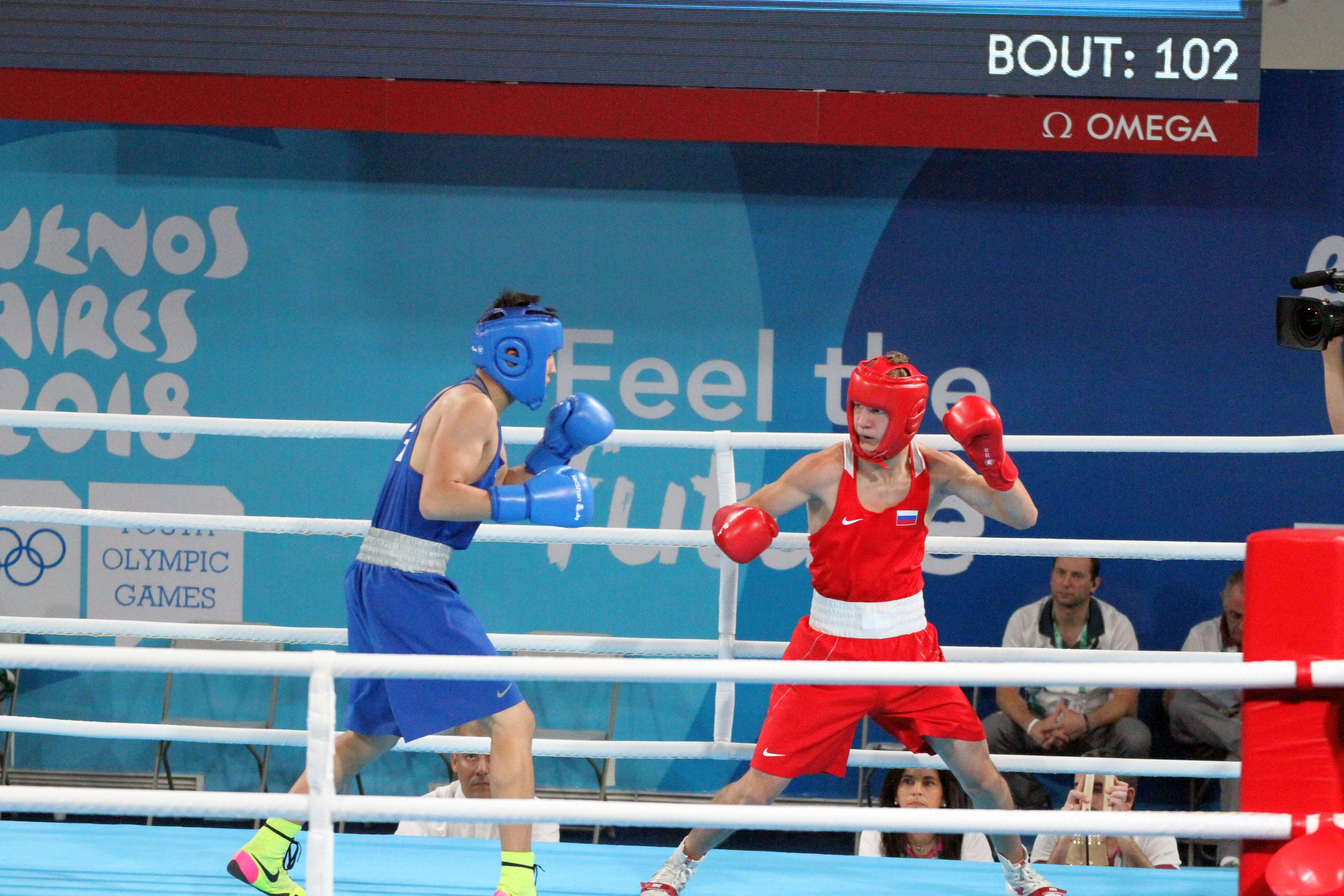 Boxing at the 2018 Summer Youth Olympics on 18 October 2018 – Final Light Welterweight Boys Bout - Ilia Popov (Rusia, rojo) supera a Talgat Shaiken (Kazakhstan, azul) 4-1; Referee is James Beckles (Trinidad and Tobago).